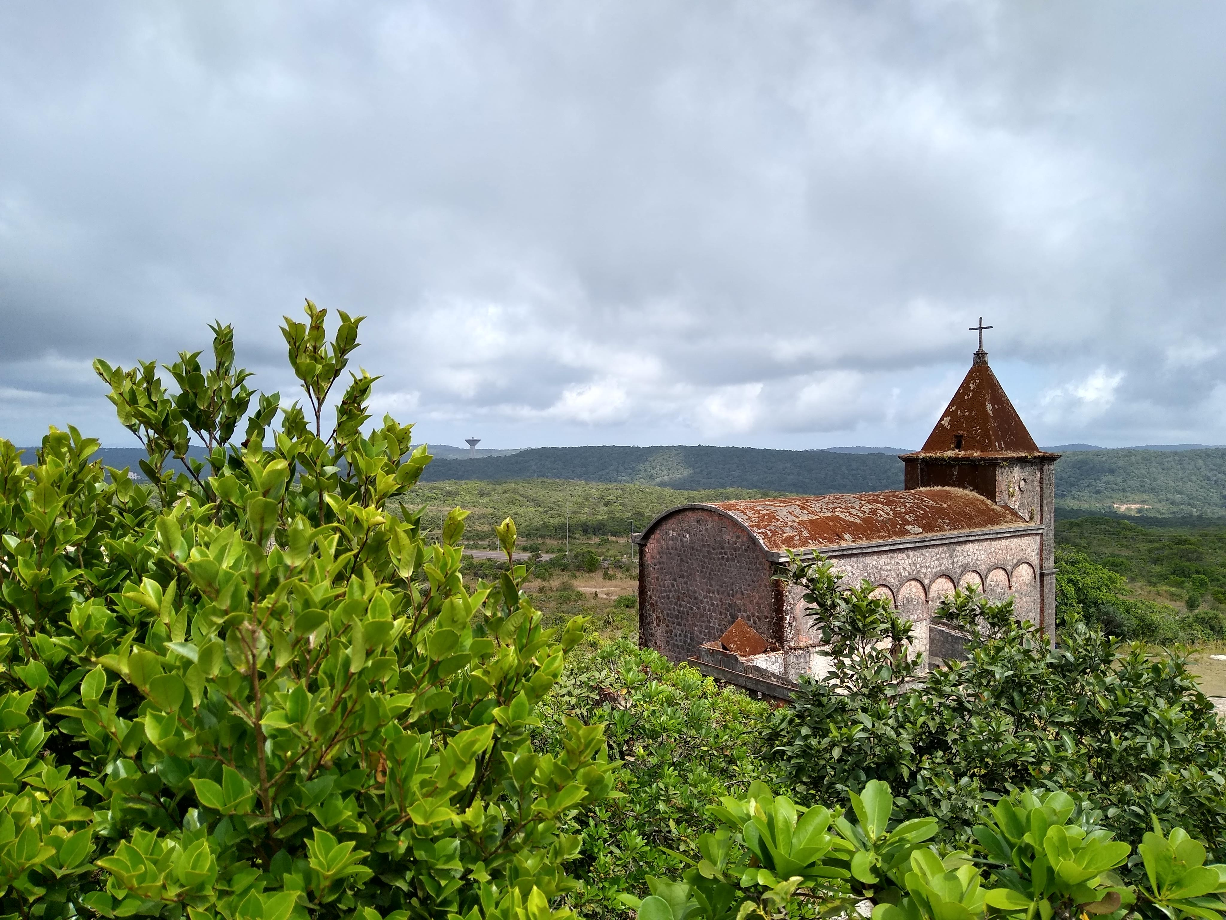 The old colonial church in Bokor National Park.